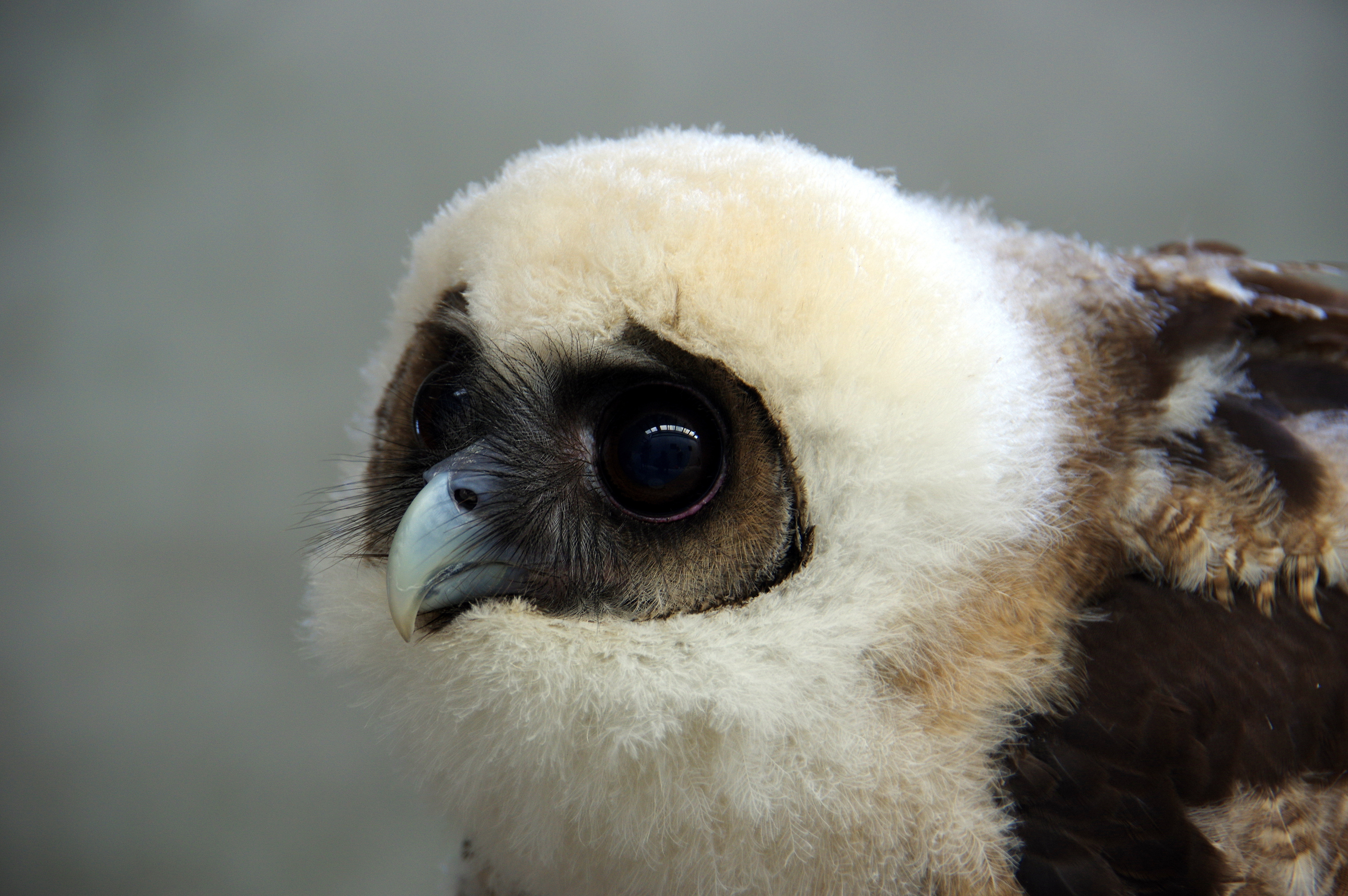 Strix_leptogrammica